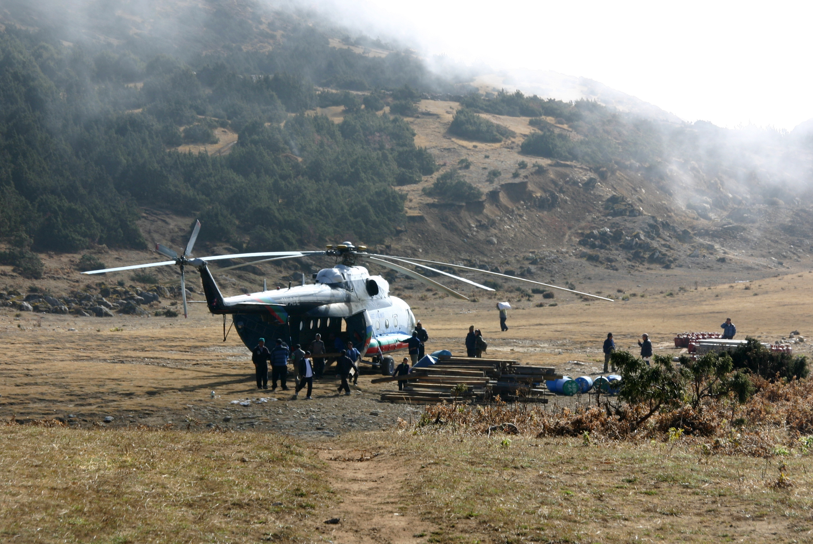 Trail from Namche Bazaar to Khumjung